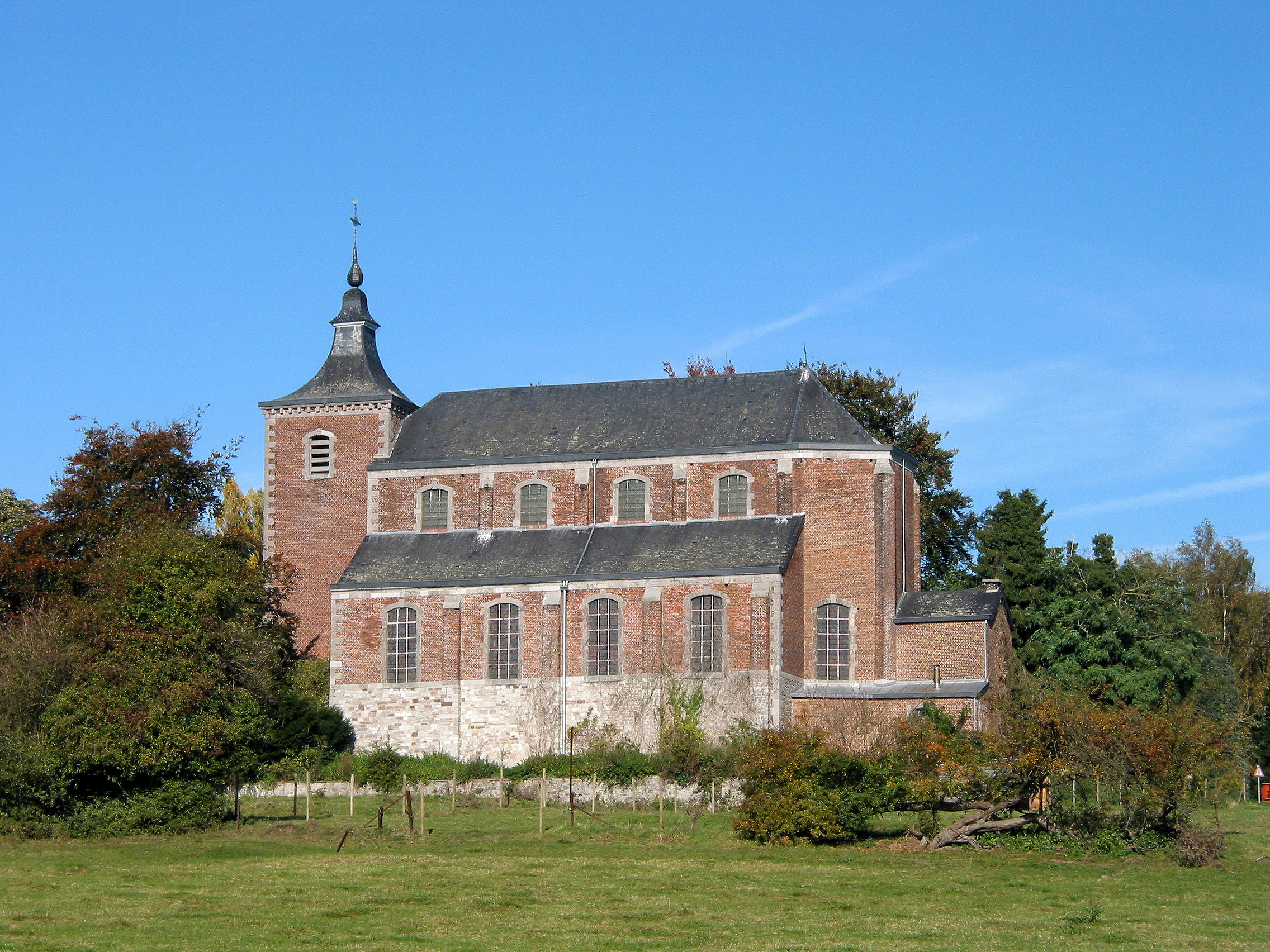 Héron (Belgium), the Saint Martin's church.